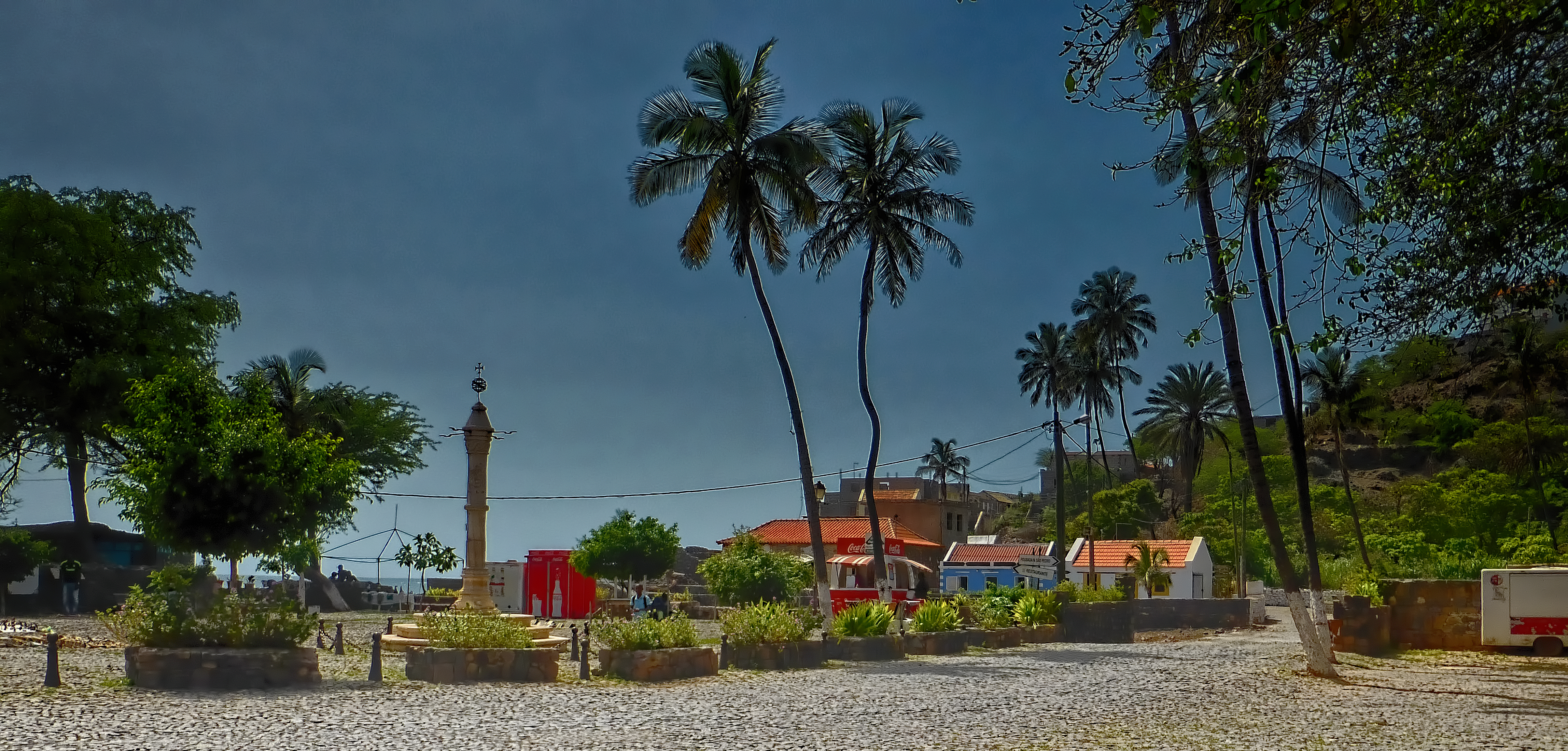 Cidade Velha - Pillory square